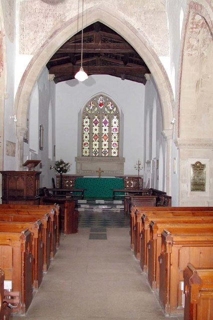 All Saints, Lathbury, Bucks - East end